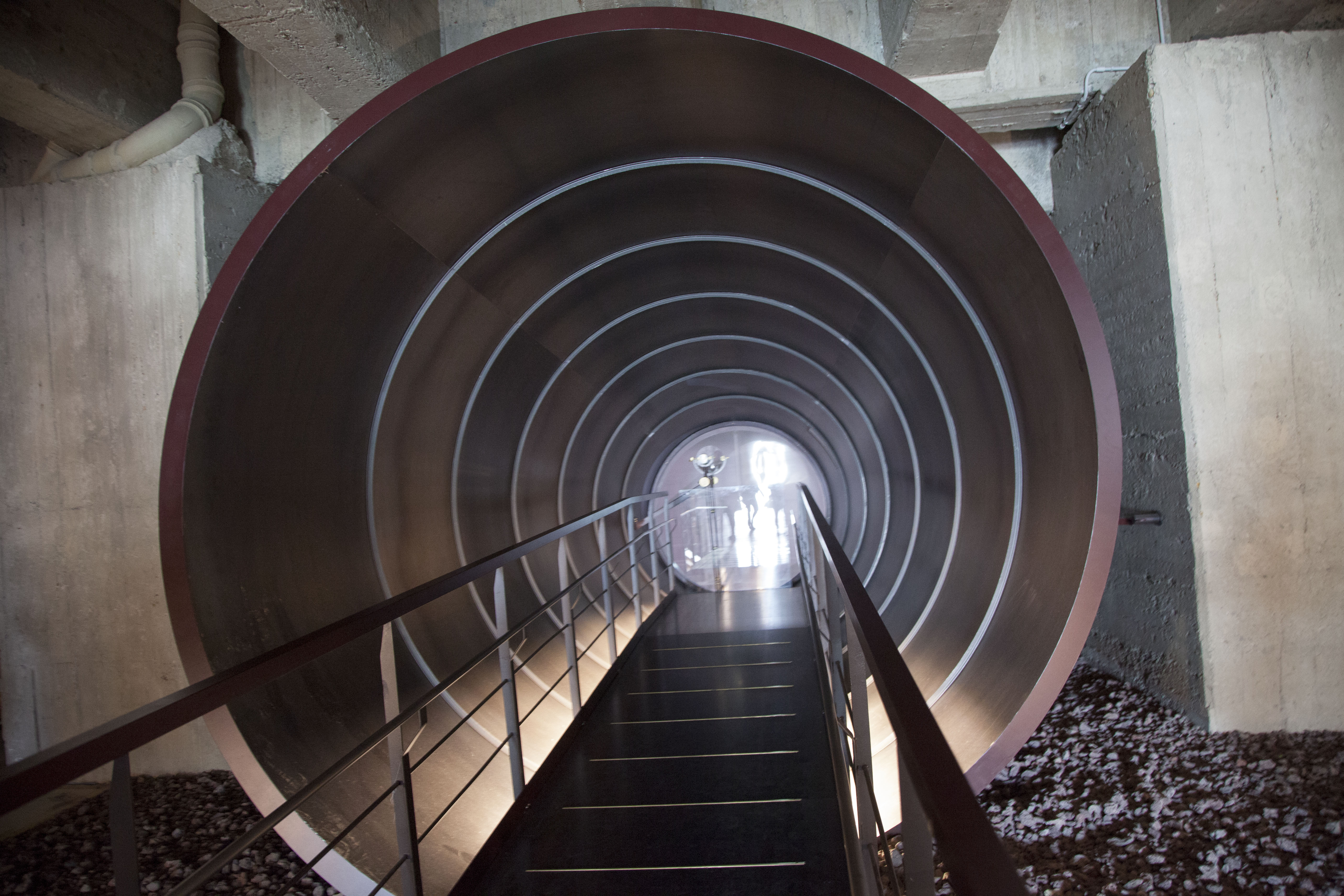 המסלול הלא ידוע